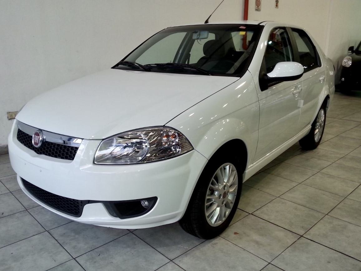 Fiat Siena EL with 1.0 Fire Flex engine